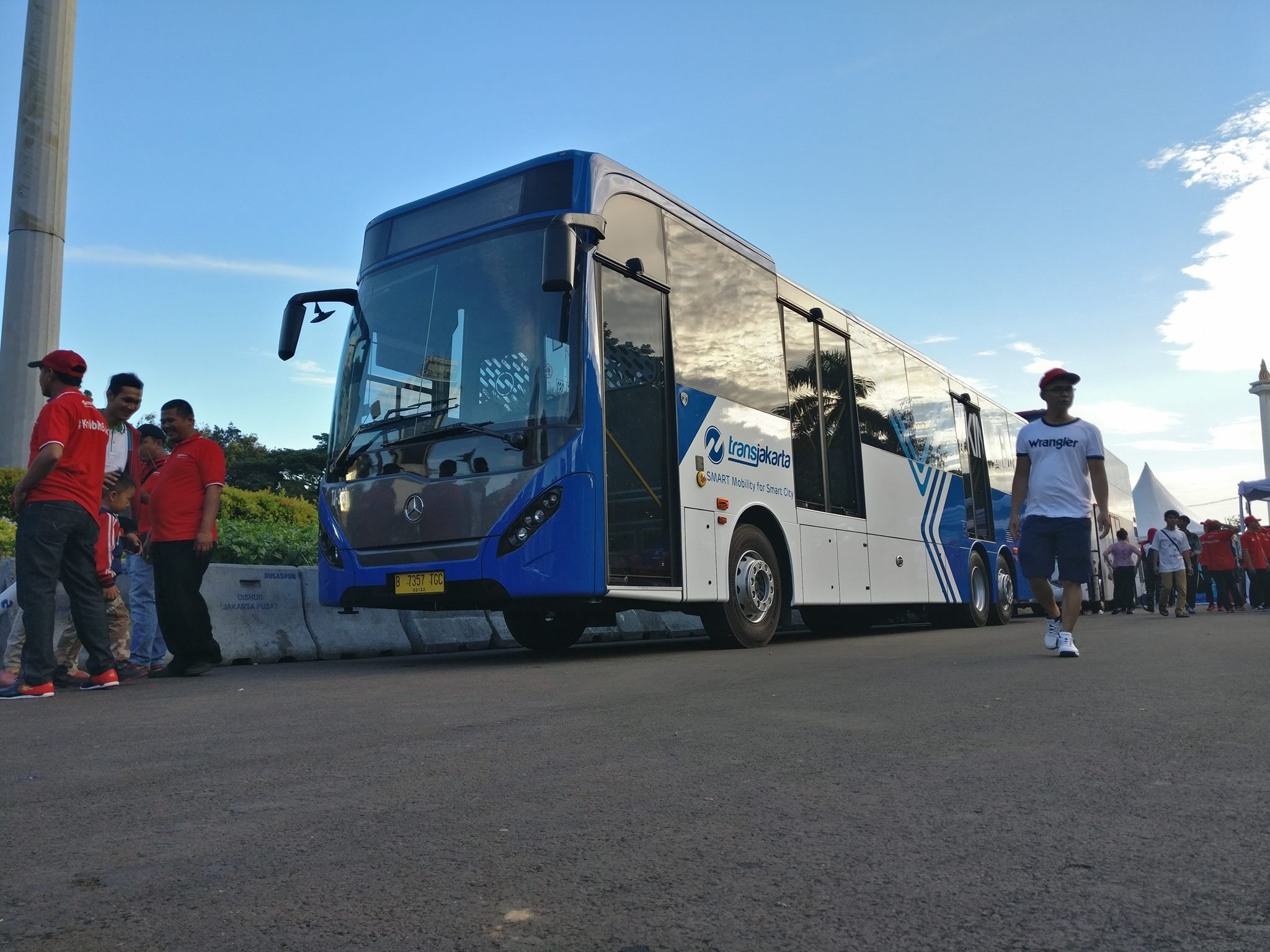 Transjakarta bus Mercedes-Benz OC 500 RF 2542, with body from Nusantara Gemilang, on its launch day.